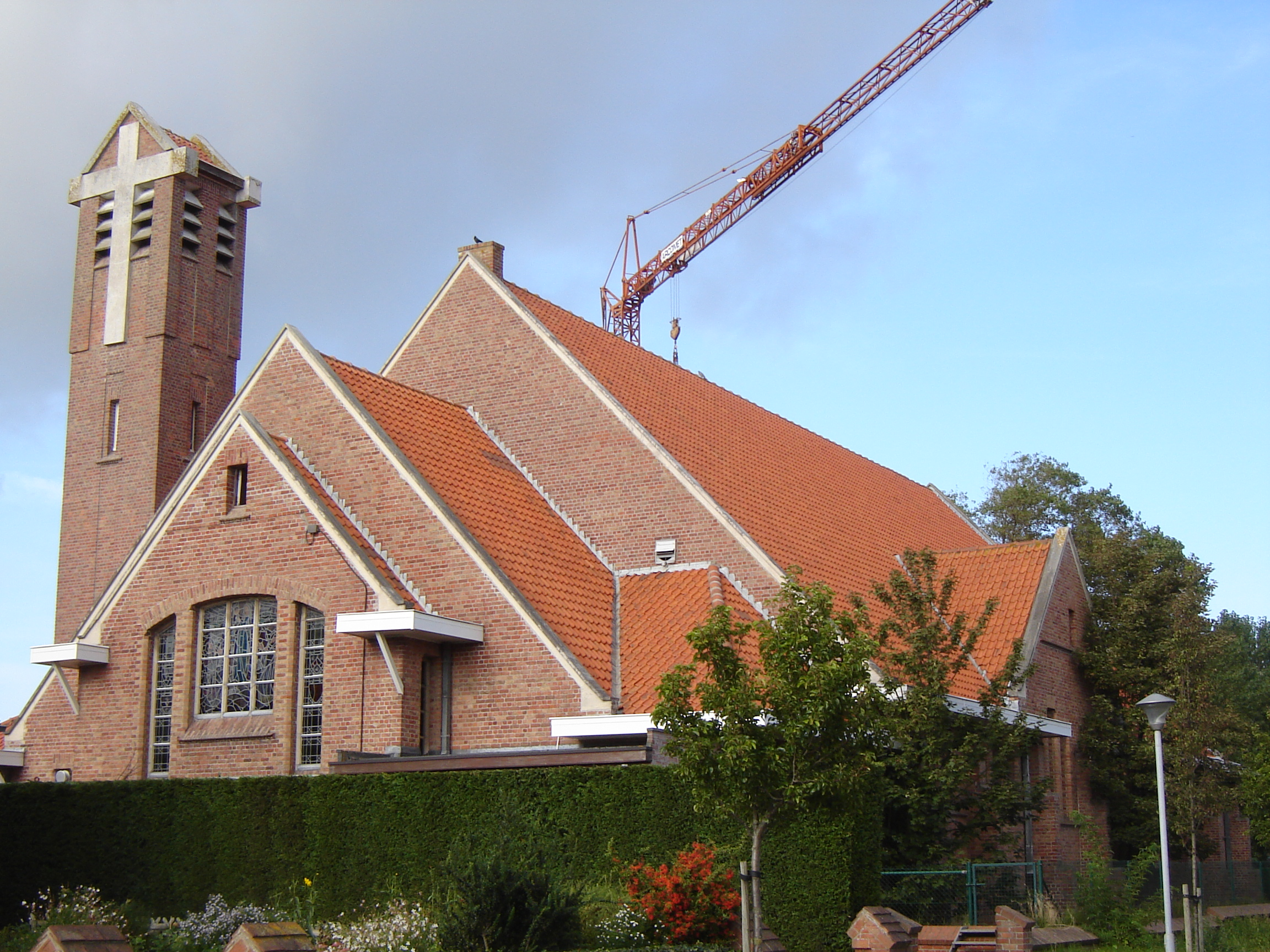 Church of Saint Idesbaldus in Sint-Idesbald. Sint-Idesbald, Koksijde, West Flanders, Belgium